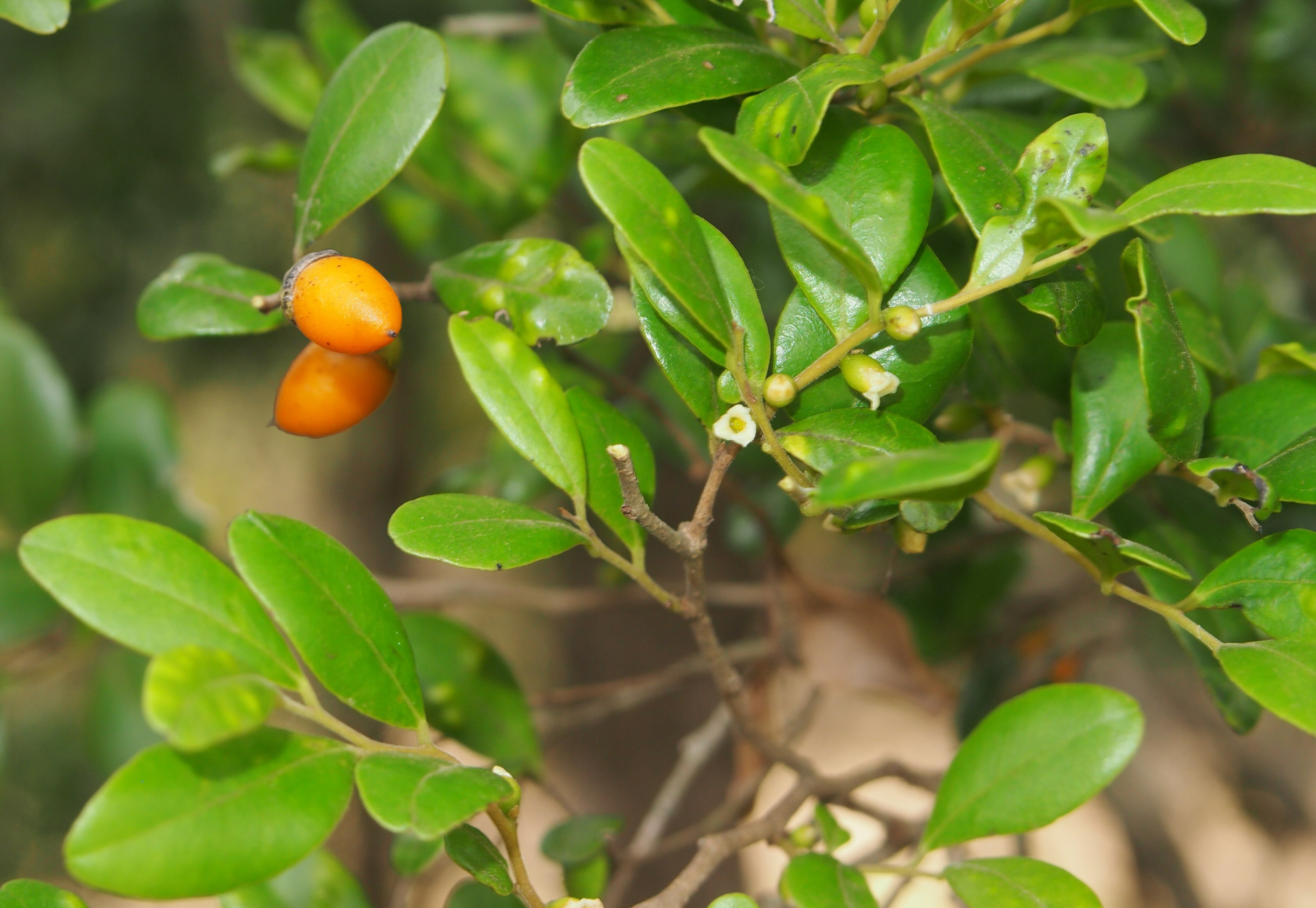 Diospyros humilis fruit foliage and flowers